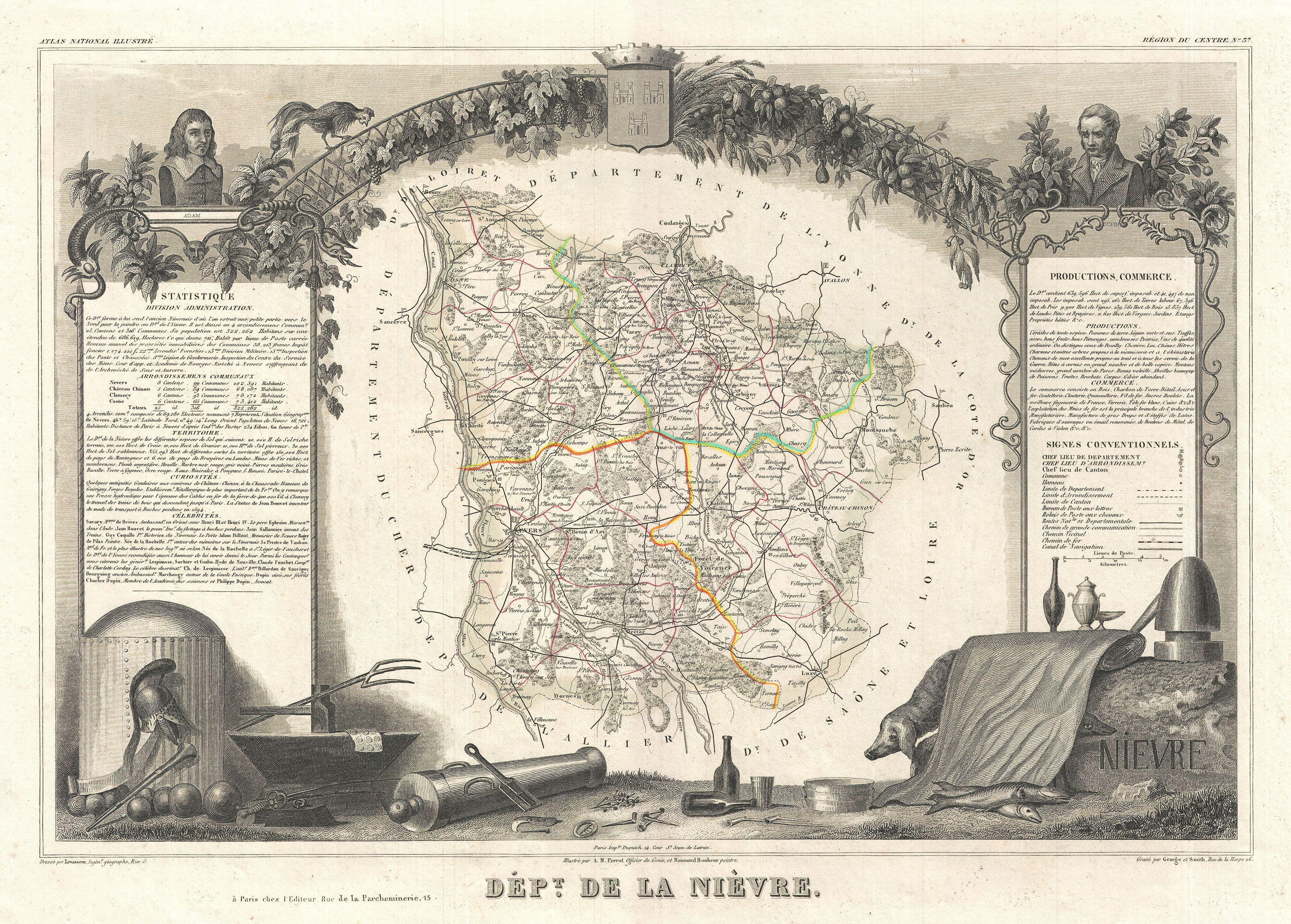 This is a fascinating 1852 map of the French department of Nievre, France. Part of the prestiegous Burgundy or Bourgogne wine region this area is known for its production of Pouilly Fumé, a white wine. The word “fumé” is French for “smoke,” and it is said the name comes from the smoky quality of these wines. The map proper is surrounded by elaborate decorative engravings designed to illustrate both the natural beauty and trade richness of the land. There is a short textual history of the regions depicted on both the left and right sides of the map. Published by V. Levasseur in the 1852 edition of his Atlas National de la France Illustree.